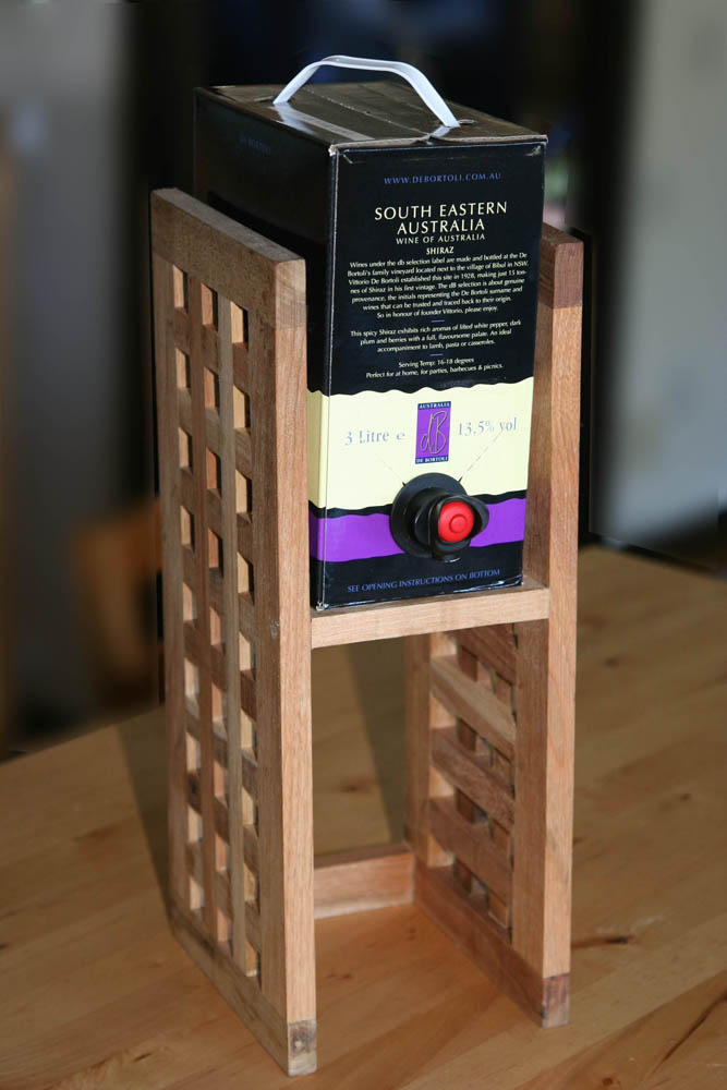 Wine bag-in-box